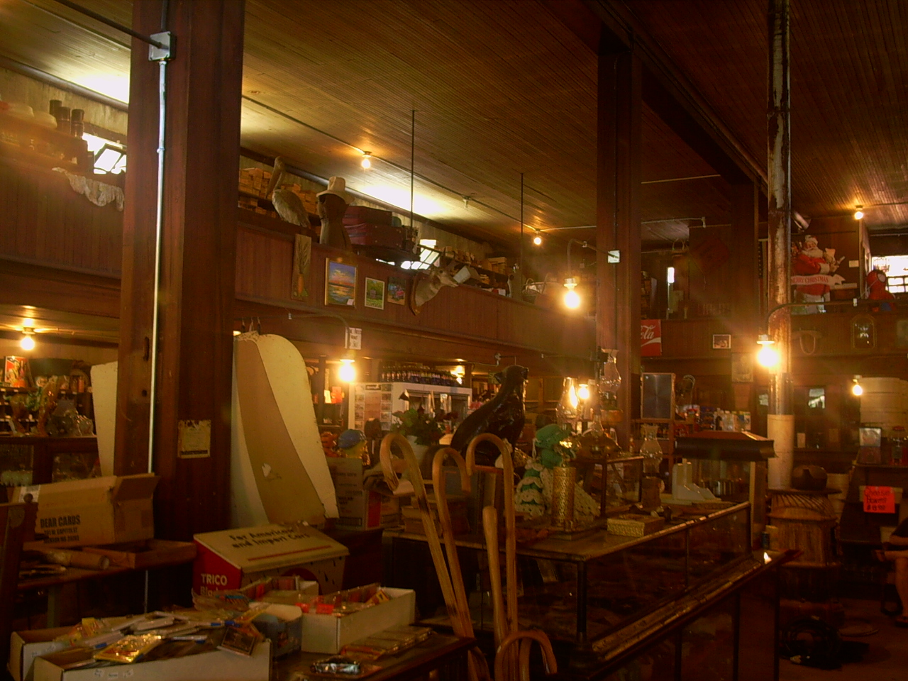 Inside view of the Simmons & Wright Company in Kewanee, Mississippi.